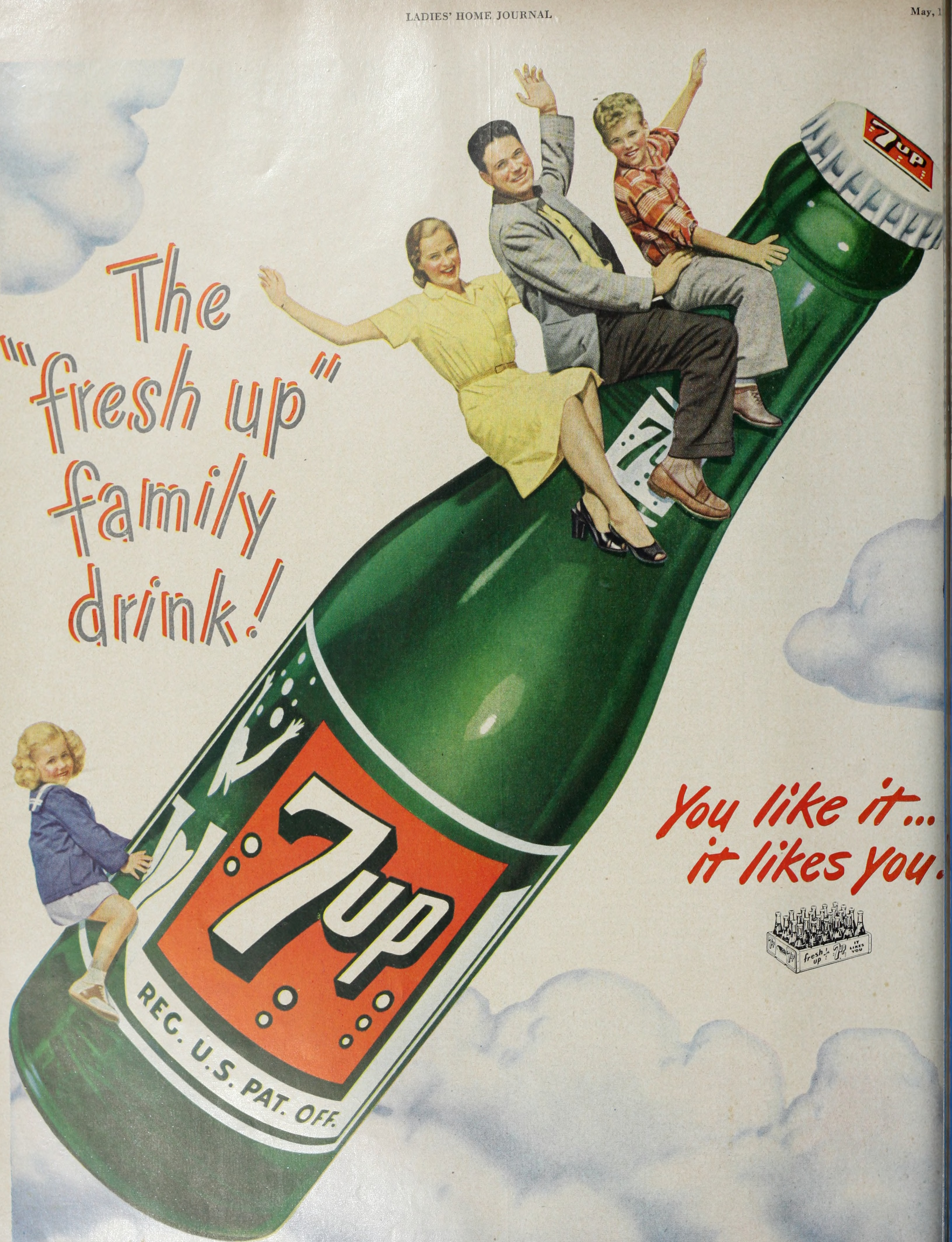 7 Up - You like it..... it likes you, 1948 Title: The Ladies' home journal Year: 1889 (1880s) Authors: Wyeth, N. C. (Newell Convers), 1882-1945 Subjects: Women's periodicals Janice Bluestein Longone Culinary Archive Publisher: Philadelphia : (s.n.) Text Appearing Before Image: LADIES HOME JOURNAL Text Appearing After Image: Jtct /Me //:..it/Mes/ov. 3PYRIGHT 1948 BY THE SEVEN UP COl LADIES HOME JOURNAL 131 (Continued from Page 129)worries to himself—they should be scat-id around for all to see and understand. all have worries; it is the exclusive,et anxiety that is the most damaging.,nd dont ever worry about your childsDming too bright. The bright child is inno relation to the round-shouldered, be-:tacled bluestocking pariah of the ear-ns; surveys have shown him to be health- of better physique than the average;•e popular and successful—yes, dollar-; too—than the majority; and, if he is asned in character and discipline as he is inning, he is as stable as the next man.jhter girls have a tendency to more-suc-iful-than-average marriages,he American public-school system, withits faults, over the years has provided a■velous means for the discovery and en-ragement of intelligence. In spite of ourlbles and weakness, our bedevilment withnomic and political problems, and the in-lsing violence and destru